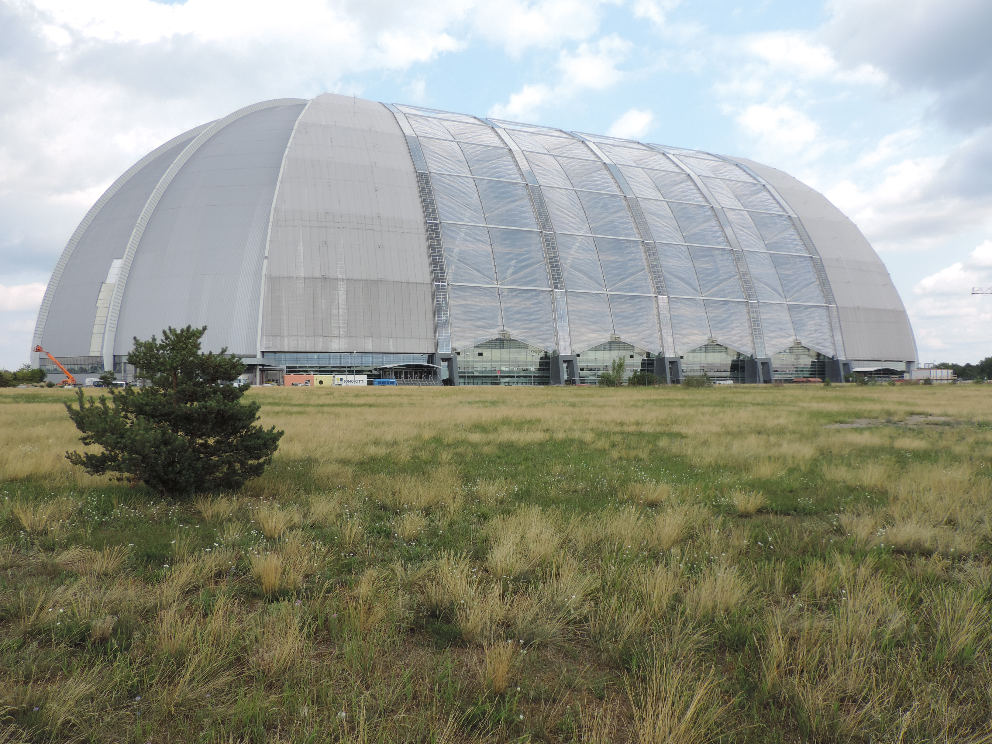 Tropical Islands - Briesen